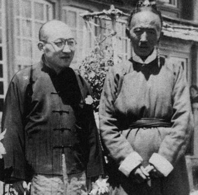 Shen Zonglian and Surkhang Wangchen Gelek